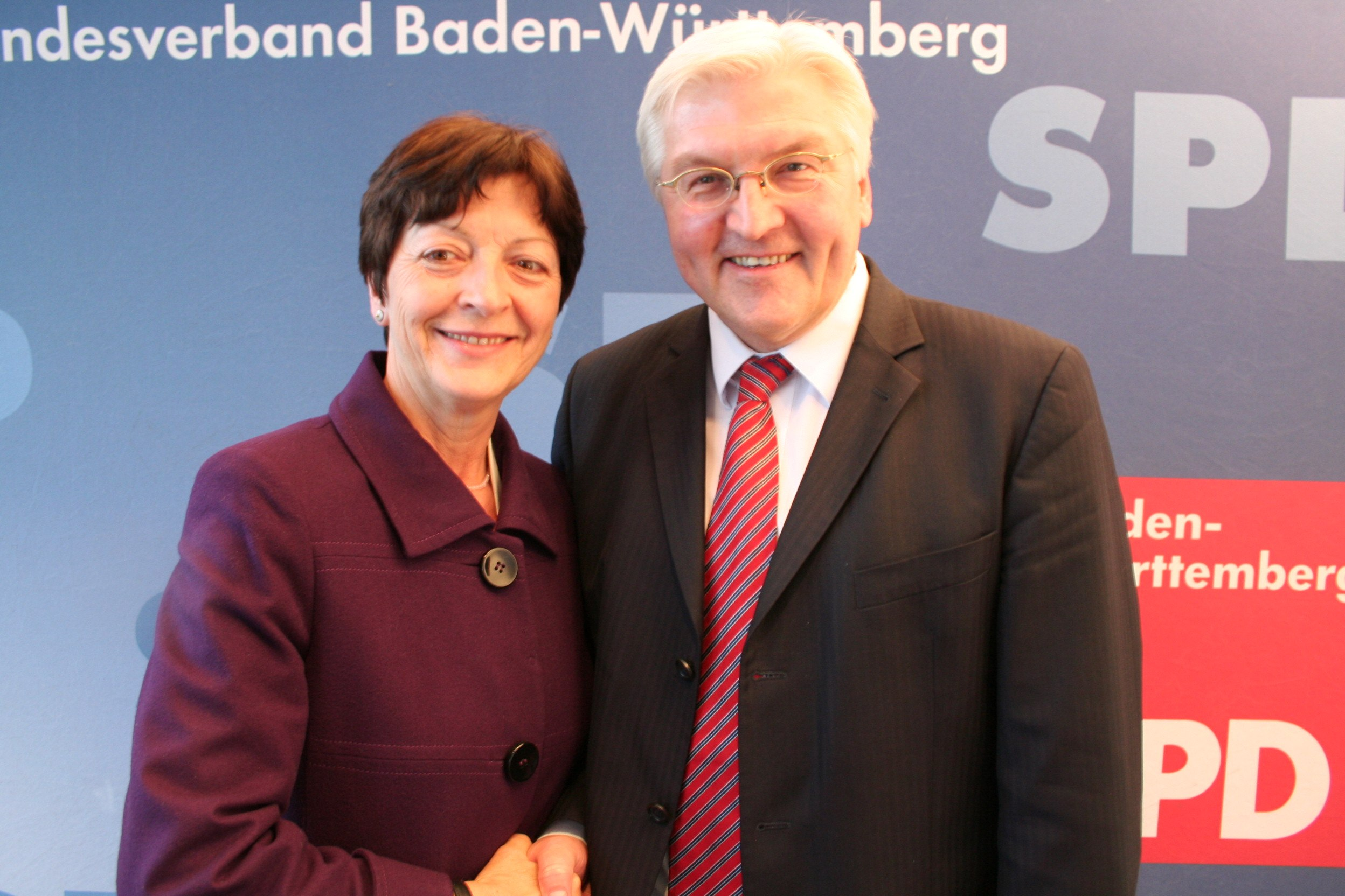 Elvira Drobinski-Weiß, German SPD politician, with Frank-Walter Steinmeier